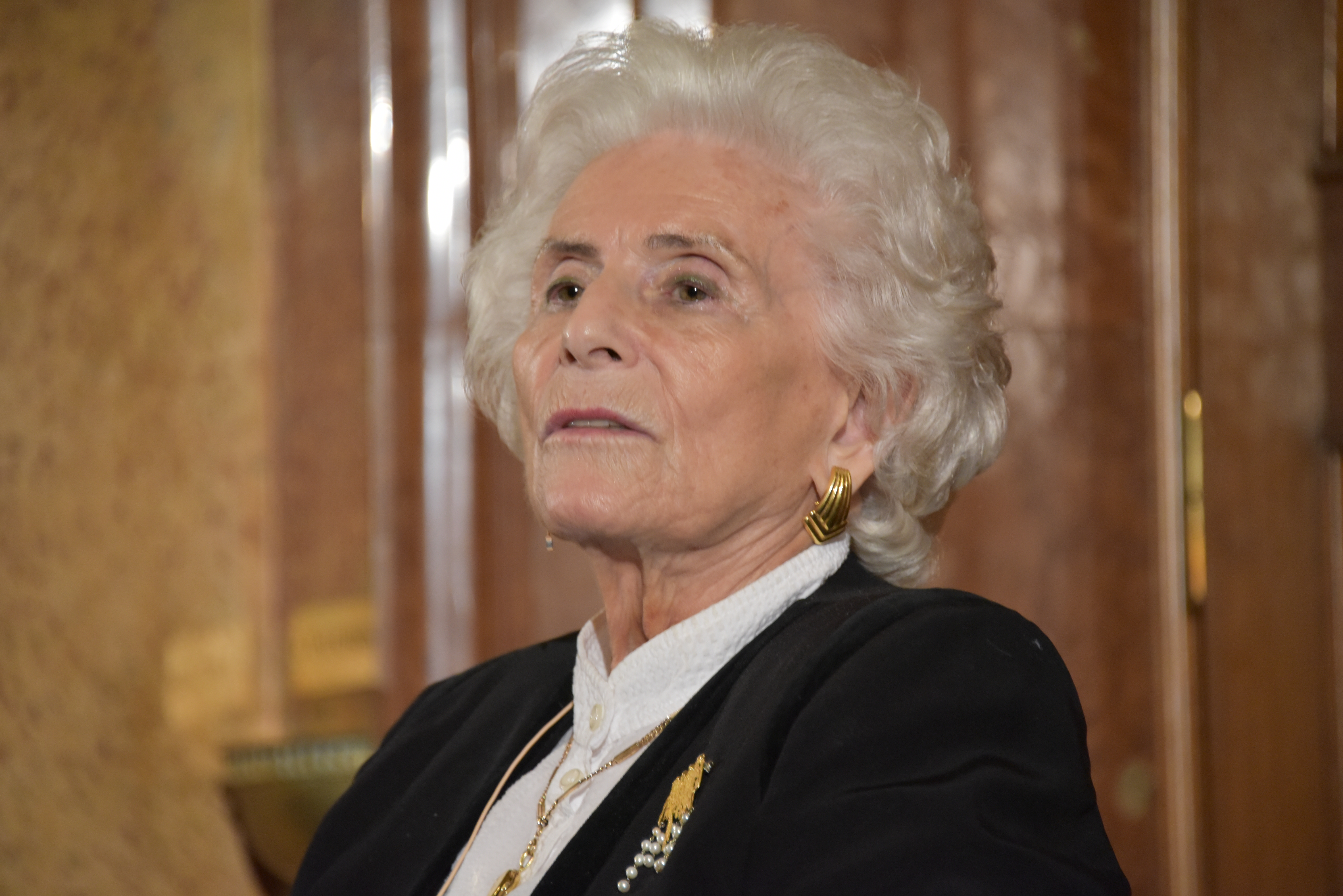 Suzanne-Lucienne Rabinovici at the Vienna Burgtheater during part 2 of "Die letzten Zeugen".